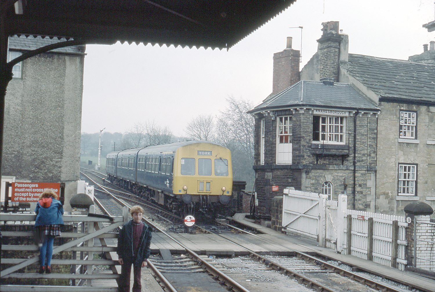 Knaresborough: strange signalbox and early DMU, 1976. View SW from the end of the platform, towards Starbeck, Harrogate and Leeds: ex-NER Leeds - Harrogate - York/Pilmoor lines. The line to Pilmoor had been closed to passengers since 15/9/58 (to goods 3/5/65), but the Leeds - Harrogate - York line remained. This was one of the earliest local passenger services to be provided with DMUs and here a Class 101 Derby 3-car unit is arriving from Harrogate and Leeds, past the extraordinary signalbox which is incorporated in a house just above the River Nidd. (My son and daughter just happened to be in this picture).